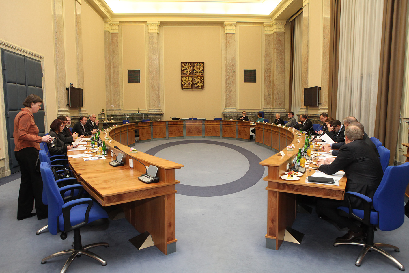 Cabinet room of the Government of the Czech Republic in Straka Academy, Prague.